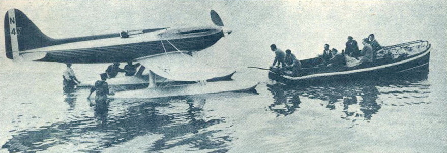 Racing seaplane Supermarine S.6 (aircraft registration N247) at 1929 Schneider Trophy